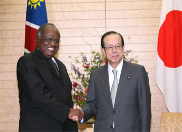 Hifikepunye Pohamba, President, met Yasuo Fukuda, Prime Minister, at the Prime Minister's Official Residence in Chiyoda Ward, Tōkyō Metropolis on October 16, 2007.